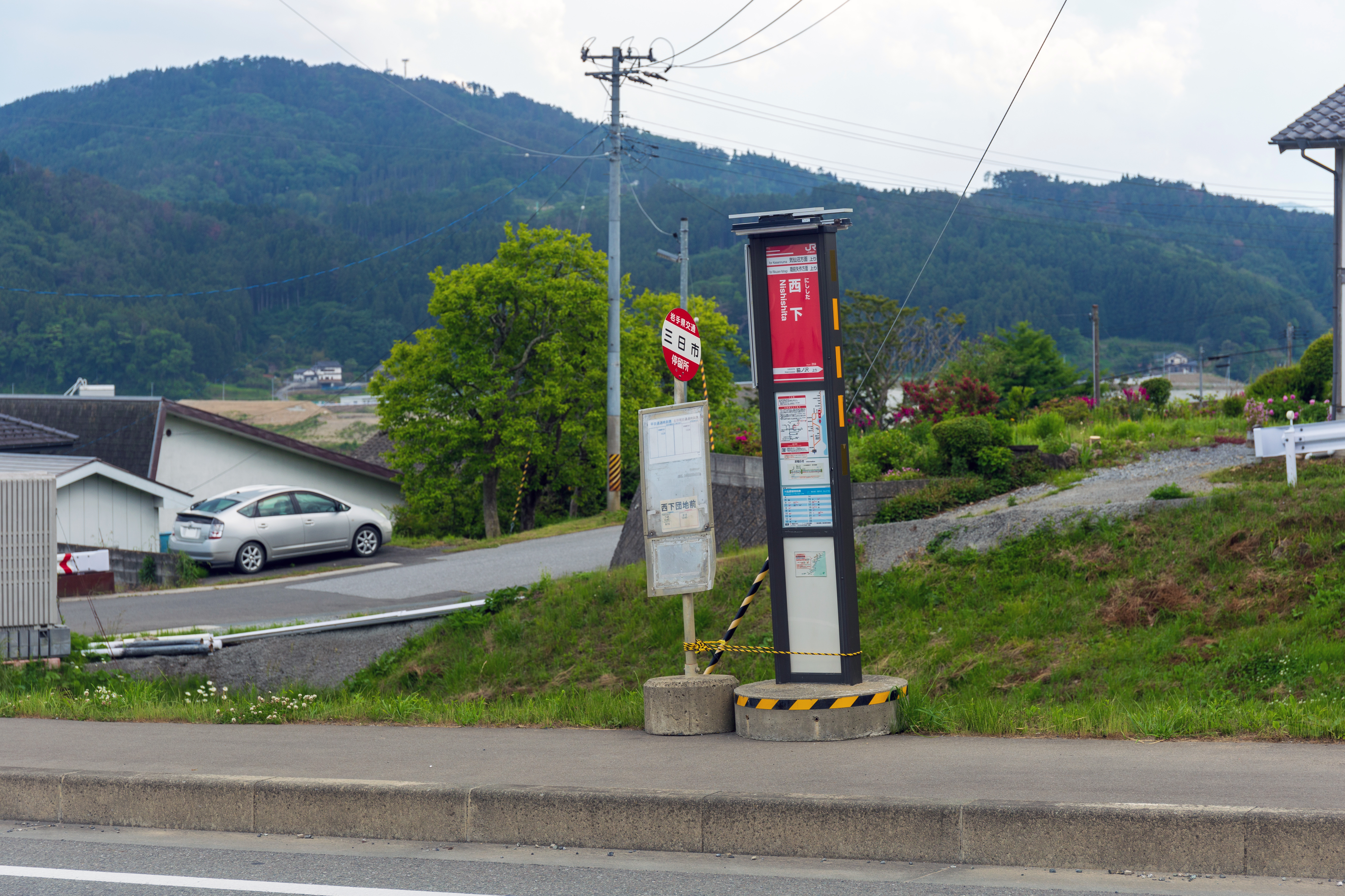 Nishishita Station on the East Japan Railway (JR East) Ofunato Line in Rikuzentakata City, Iwate Prefecture, Japan